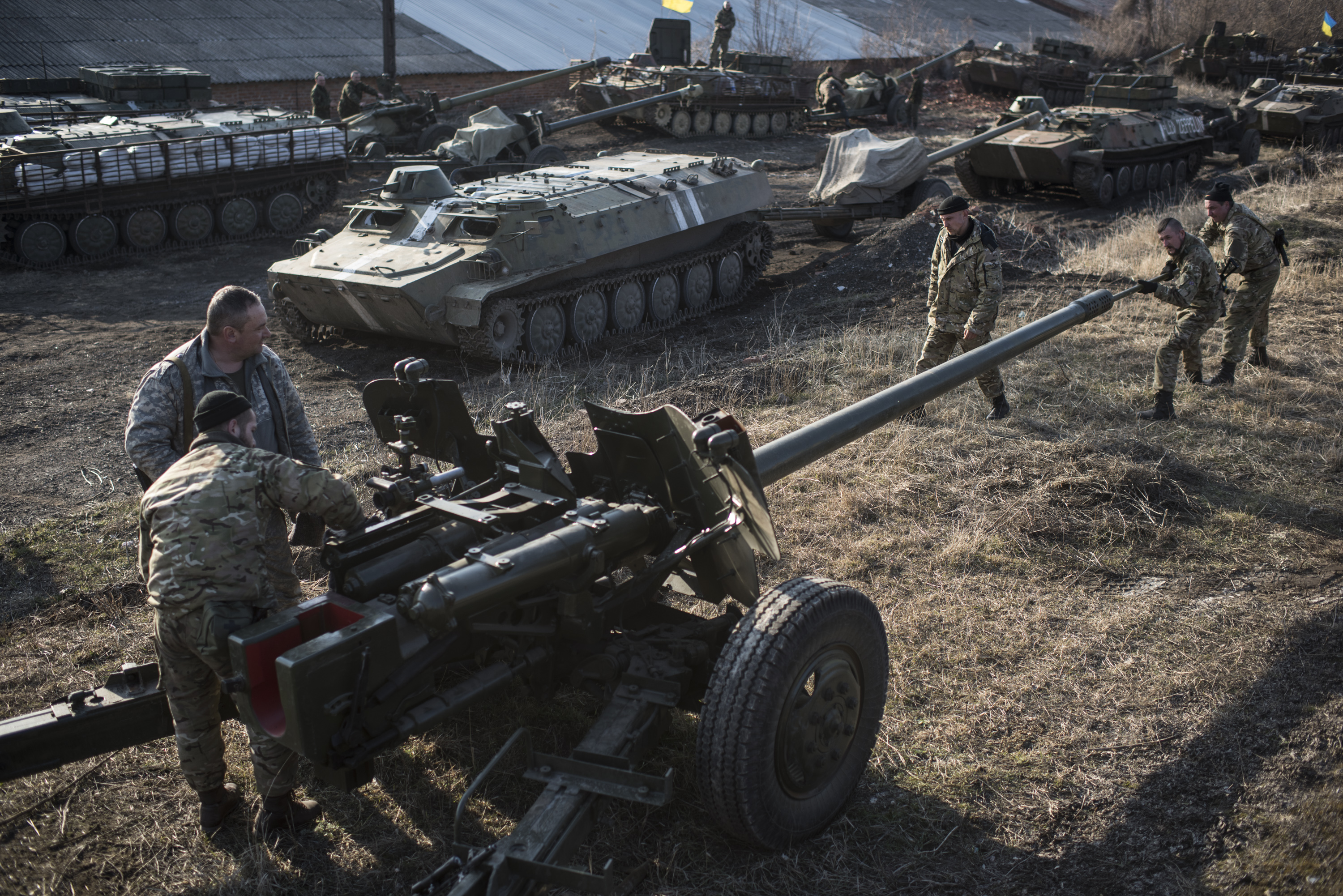 February, 2015